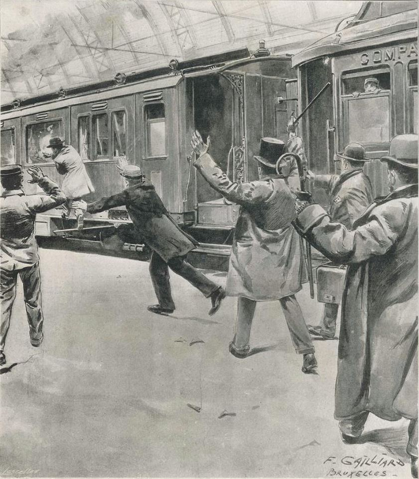 The attempted assassination of the Prince of Wales at the Gare du Nord, Brussels. Painting by Franz Gailliard, published in the Illustrated London News